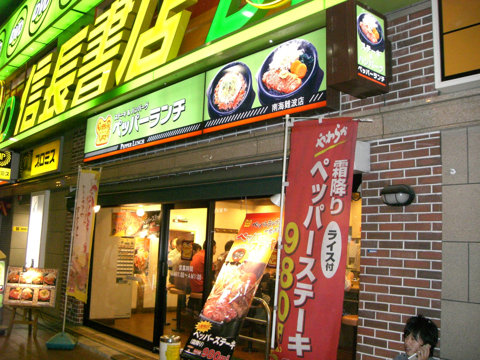 Pepper Lunch at Nankai-Namba Osaka